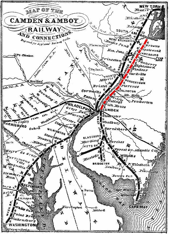 Map of the Camden & Amboy Railway and connections, as engraved for Appletons' Railway and Steam Navigation Guide (1869), showing the old alignment that operated north from Trenton until May 29, 1865. The C&A main line has been digitally colored red in this illustration.